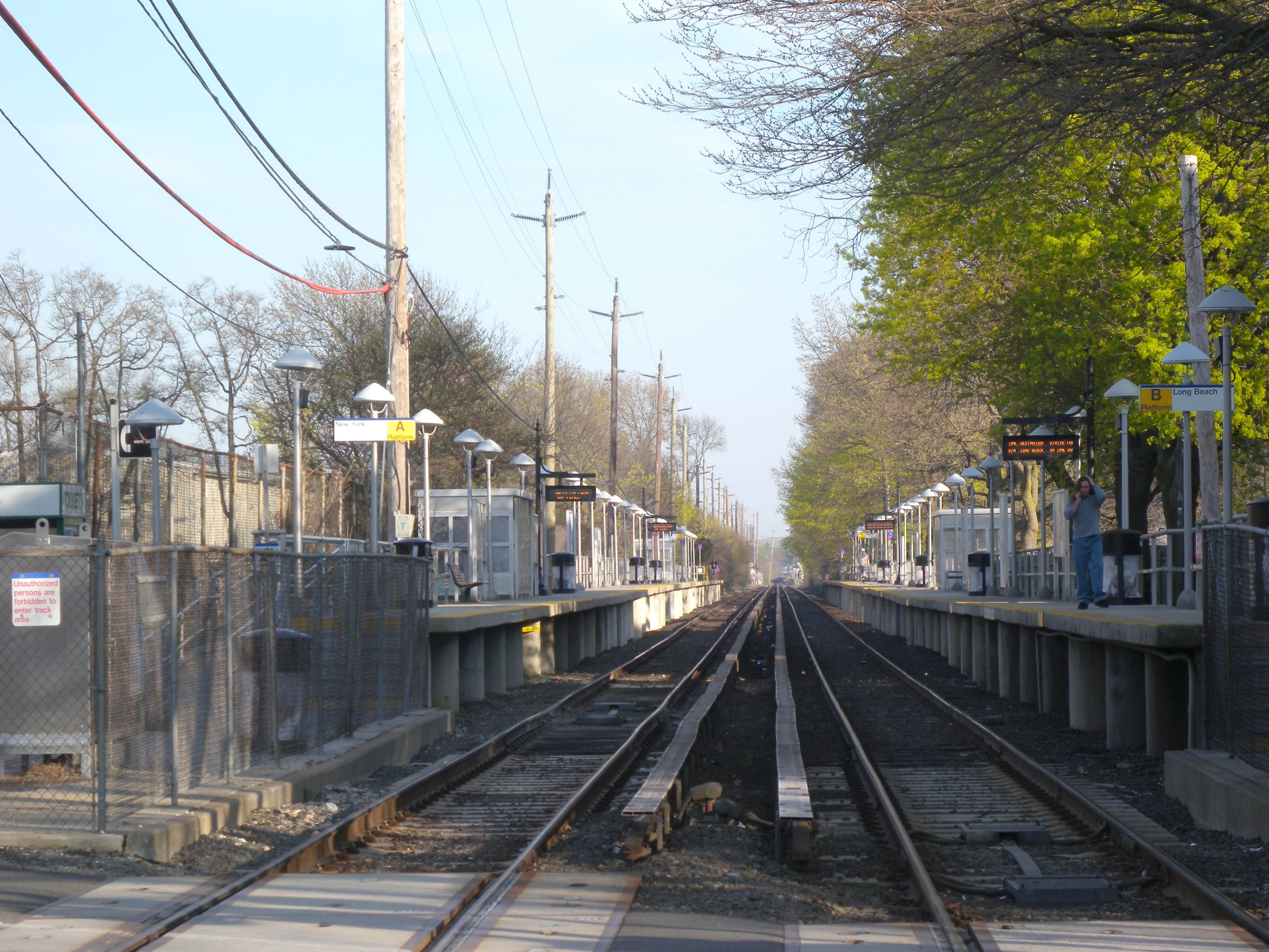 Looking southeast at Centre Avenue station of LIRR, late on a sunny afternoon